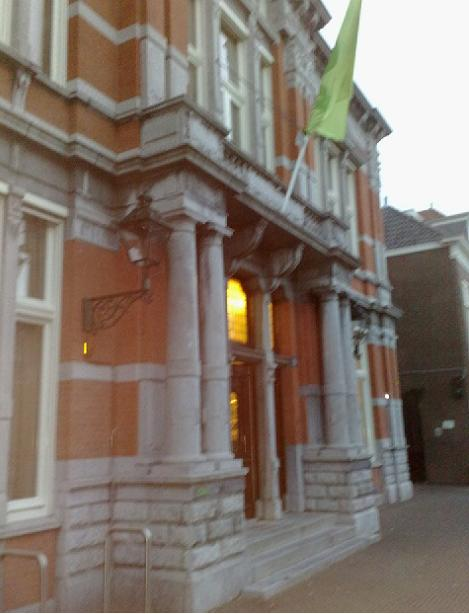 party headquarters of the Dutch Christian Democrats